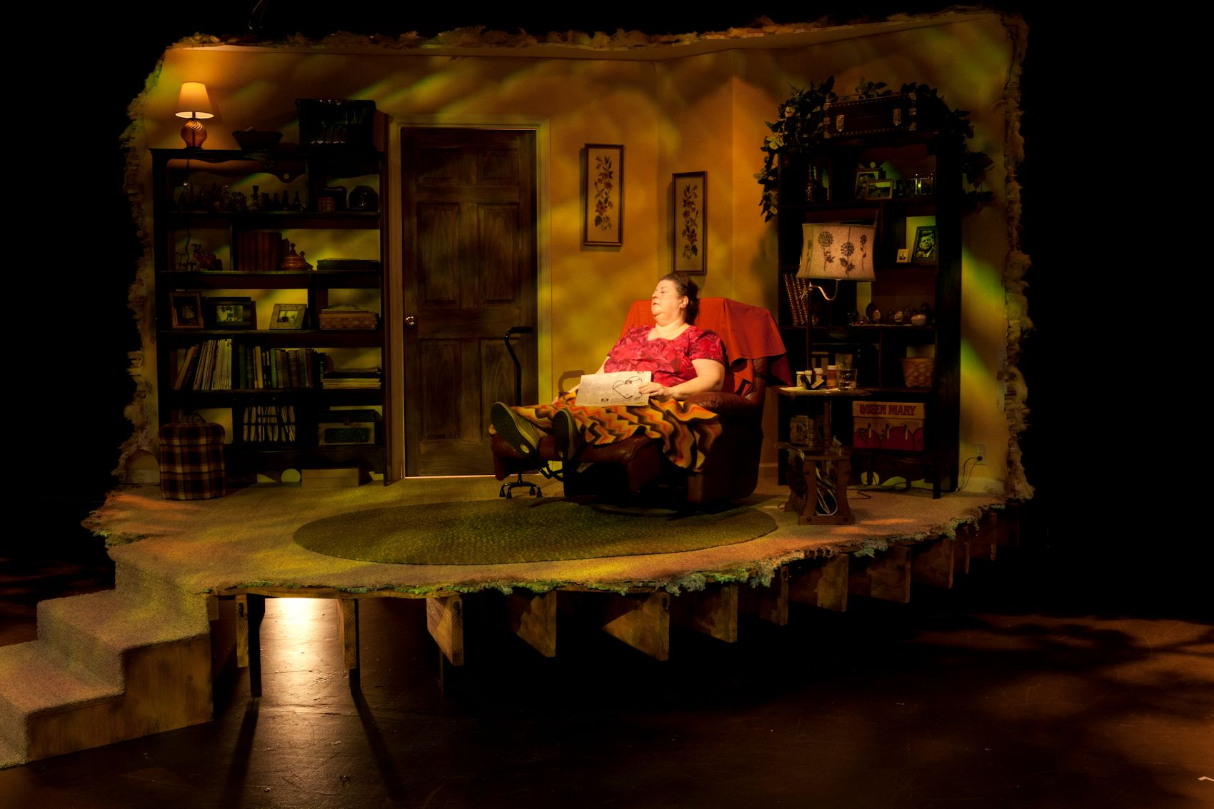 Playwright: Lisa Kron